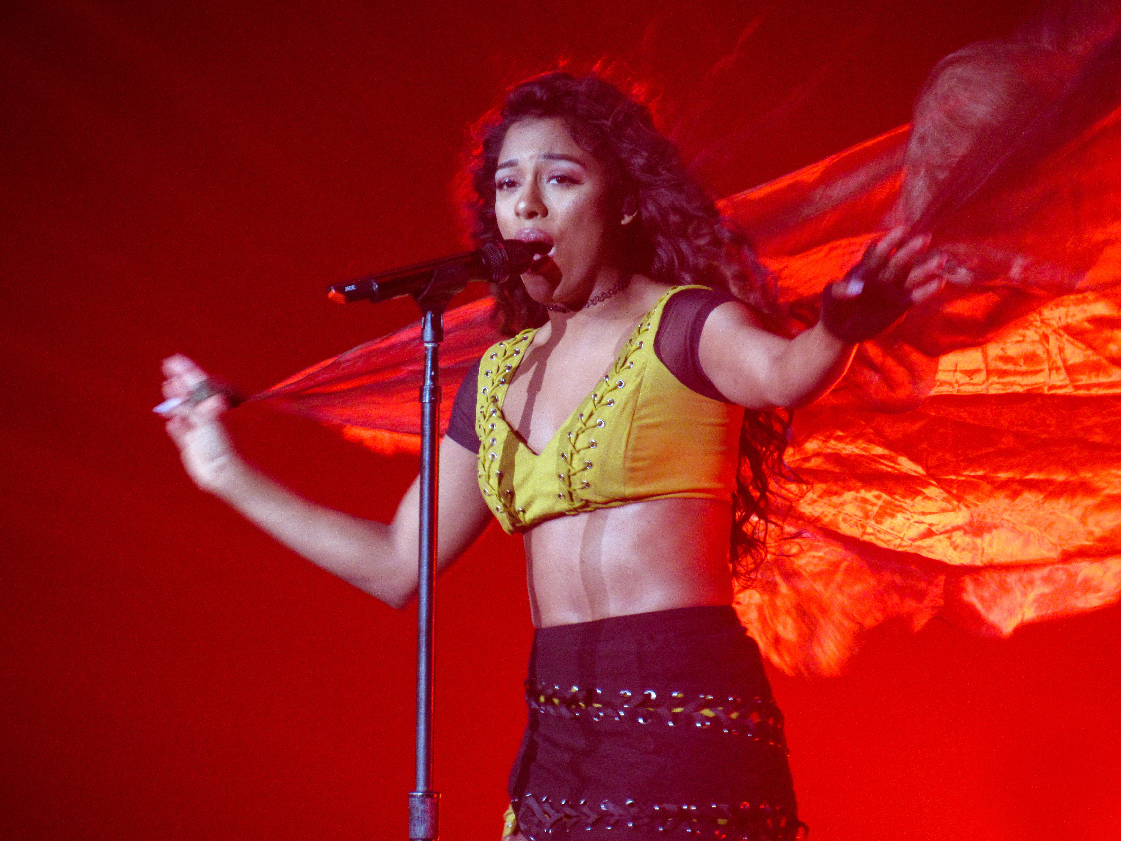 Dangerous Woman Tour 2/19/17 Ariana Grande performing during Dangerous Woman Tour in Manchester, New Hampshire, SNHU Arena, on February 19, 2017.